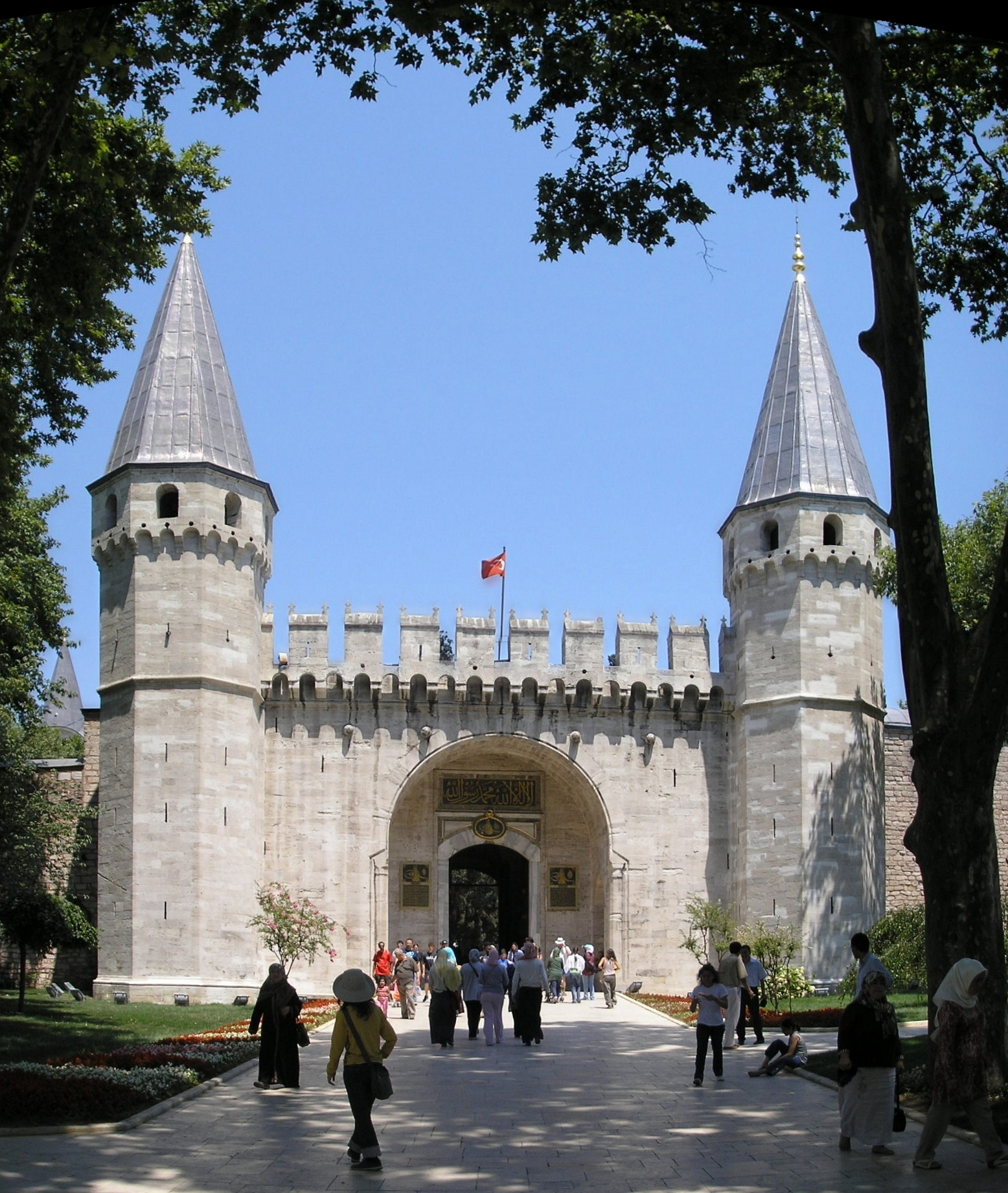 The Gate of Salutation at the Topkapi Palace in Istanbul This panoramic image was created with Autostitch. Stitched images may differ from reality.